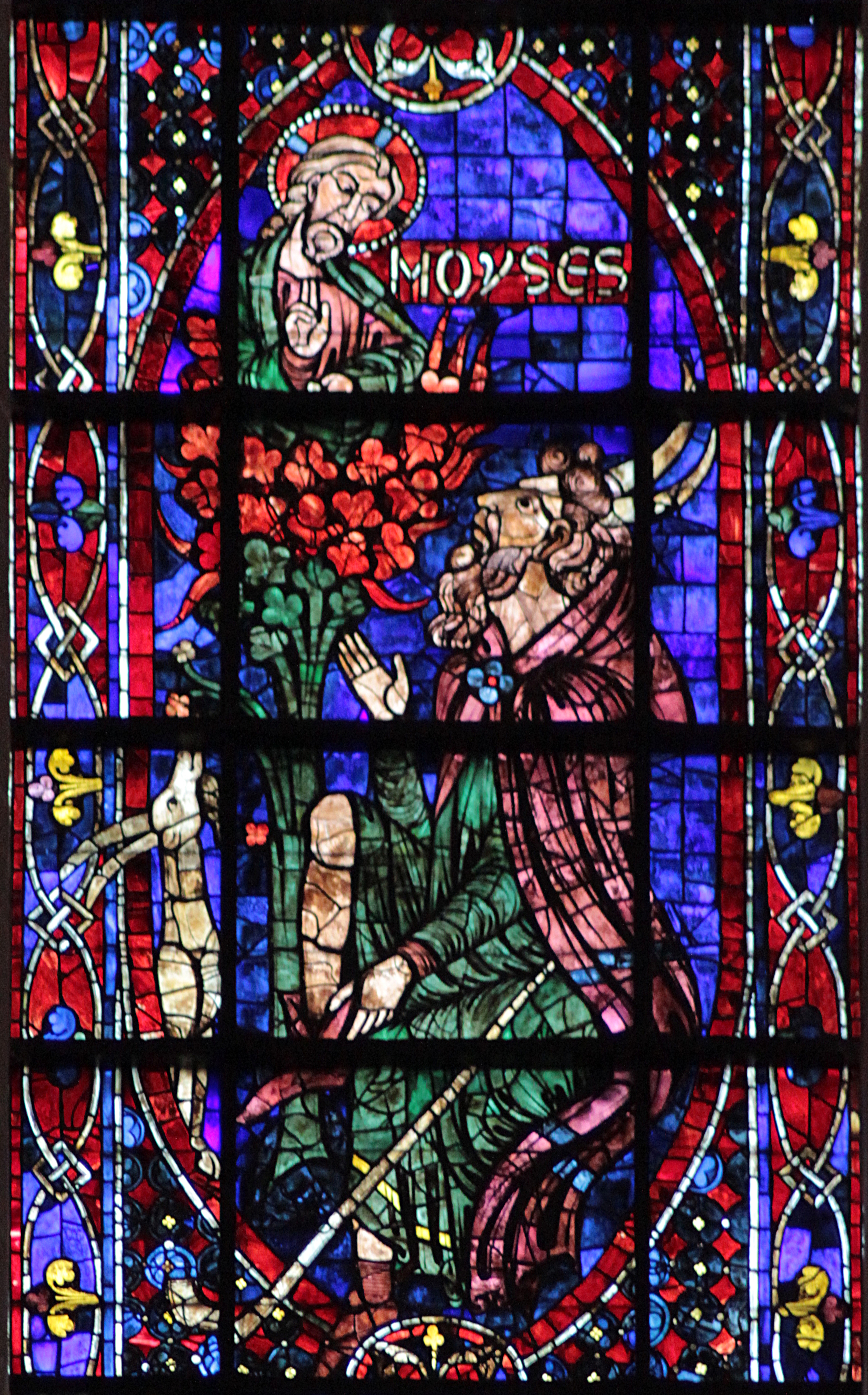 Moïse wwith the burning bush.